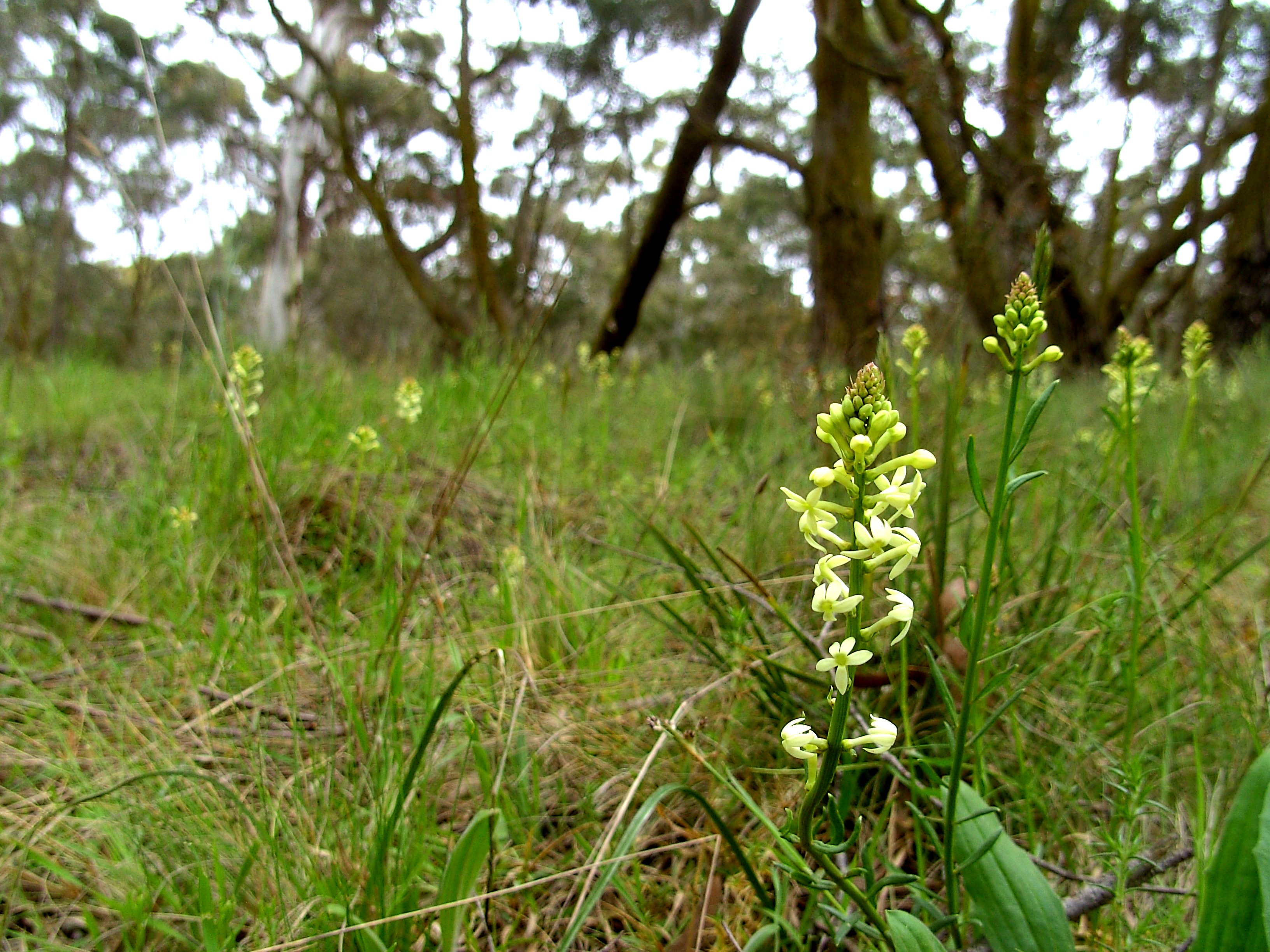 Stackhousia monogyna Spring in Oberon is always a bit behind other places. Oz violets, blue daisys and buttercups are flowering, but it's the Creamy Stackhousia that don't seem to mind the cold. Narrow-leaf peppermints and Mountian Gum predominate in this woodland at the Oberon Dam.